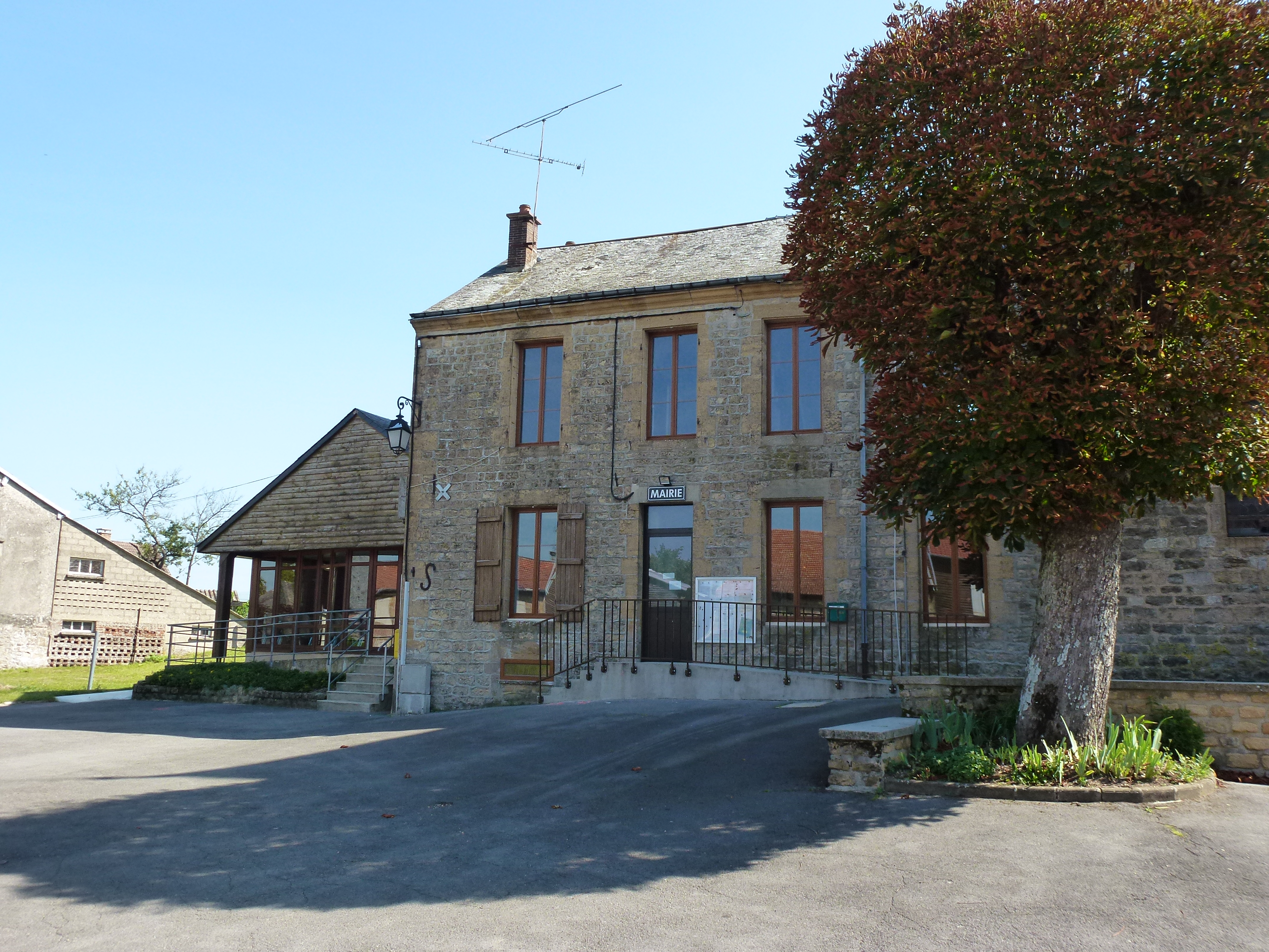 Baâlons (Ardennes) mairie